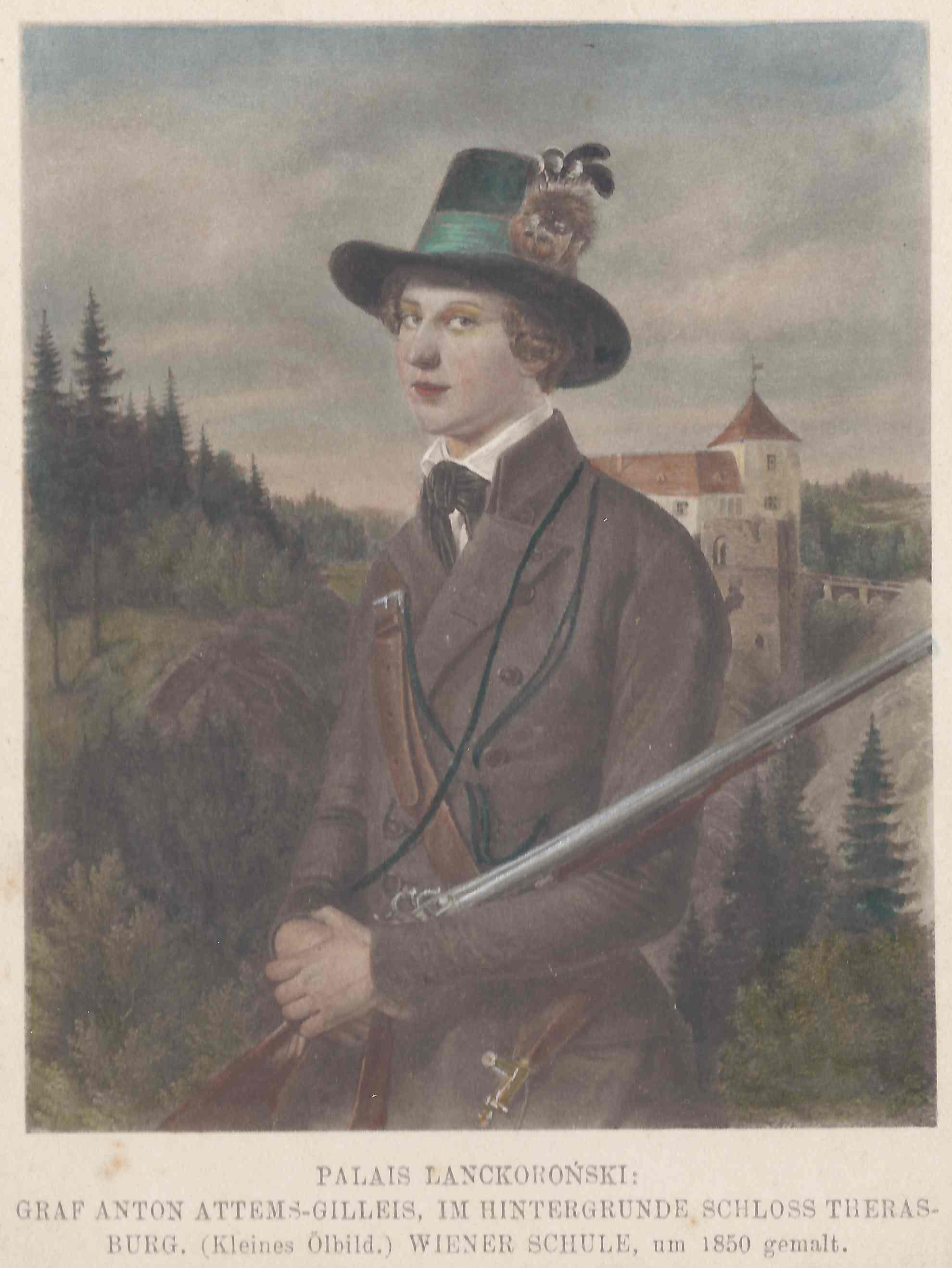 Anton August Count Attems-Gilleis, Baron Heiligenkreuz, 1834-1891, Portrait in young age ~ 1850.